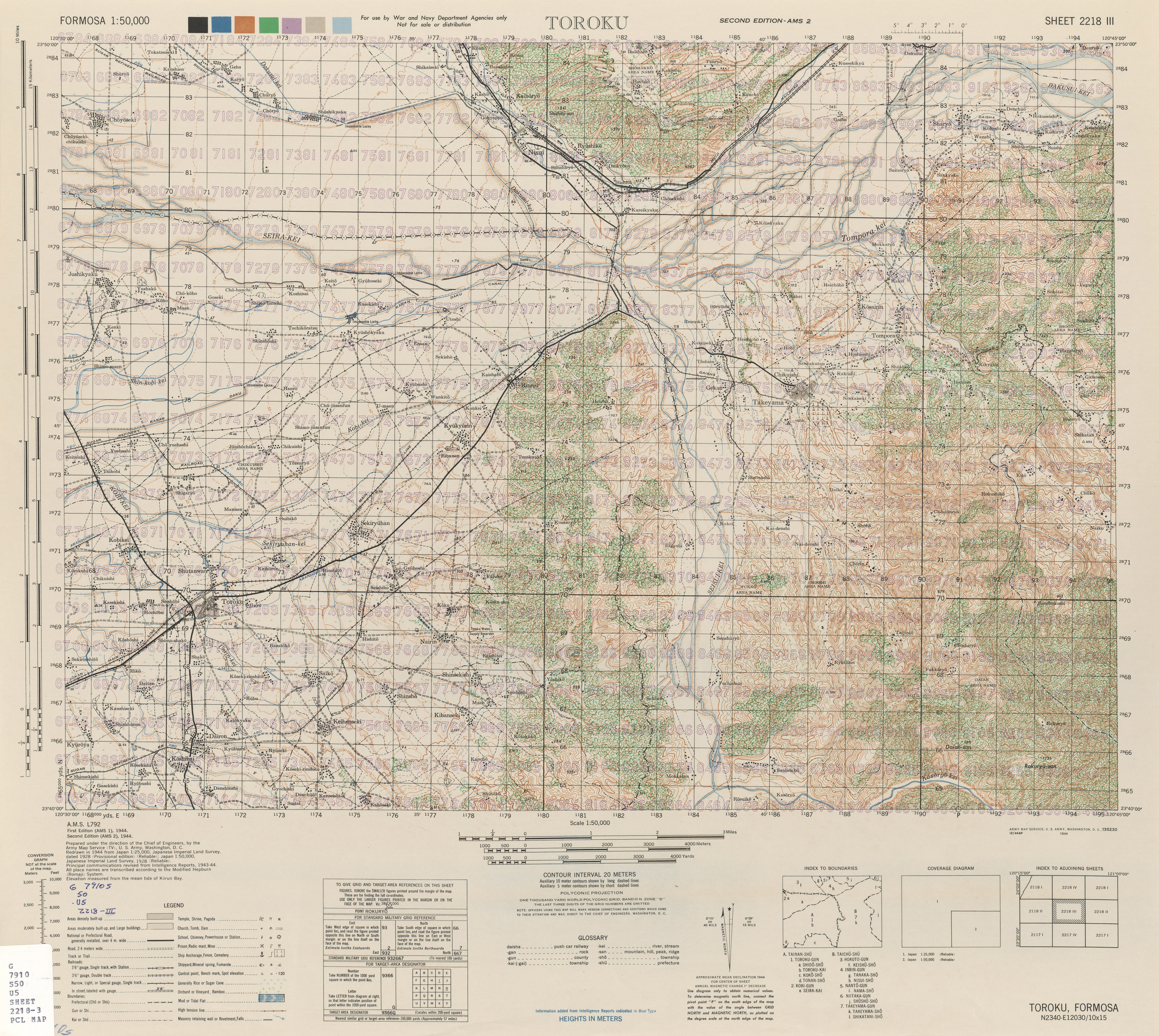 Map from Formosa (Taiwan) 1:50,000 AMS Series L792